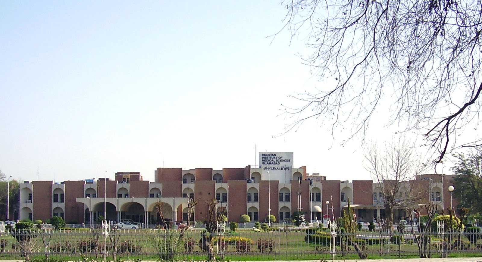 The main building of Pakistan Institute Of Medical Sciences Islamabad Pakistan.